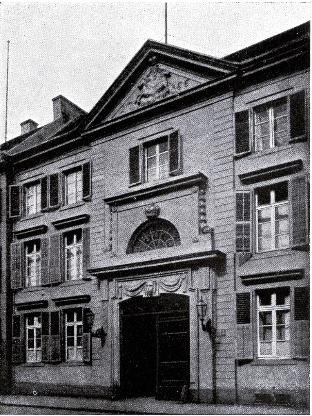 e